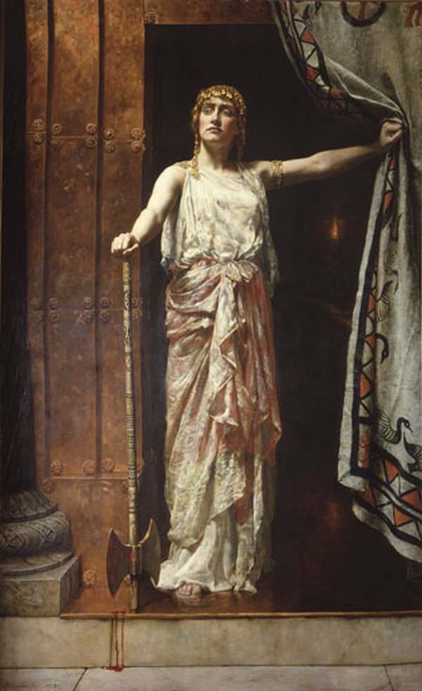 The painting shows the queen Clytemnestra standing, holding the axe with which she killed her husband Agamemnon when he came back from the Trojan war. This is a famous episode from the Greek mythology.